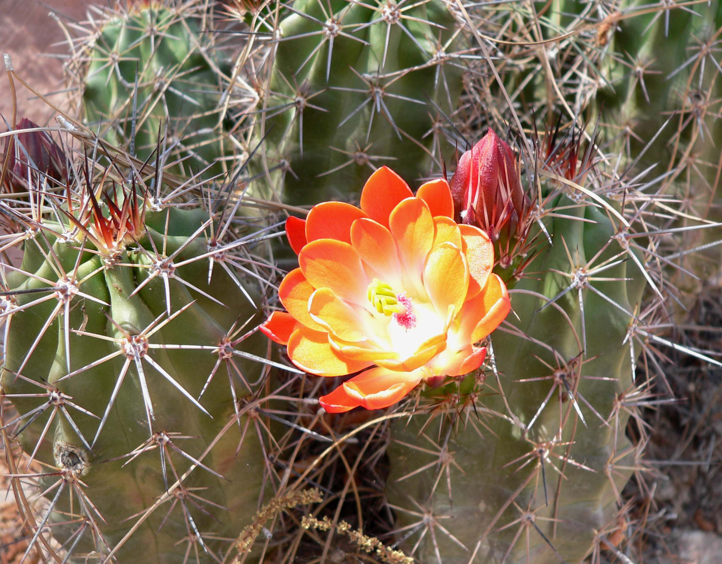 Echinocereus triglochidiatus ssp.arizonicus — Arizona hedgehog cactus. Botanical specimen at The Gardens at the Las Vegas Springs Preserve (formerly the Desert Demonstration Garden), the desert botanical garden in the Las Vegas Springs Preserve, Las Vegas, Nevada. This subspecies is endemic to Pinal and Gila Counties in Central Arizona.